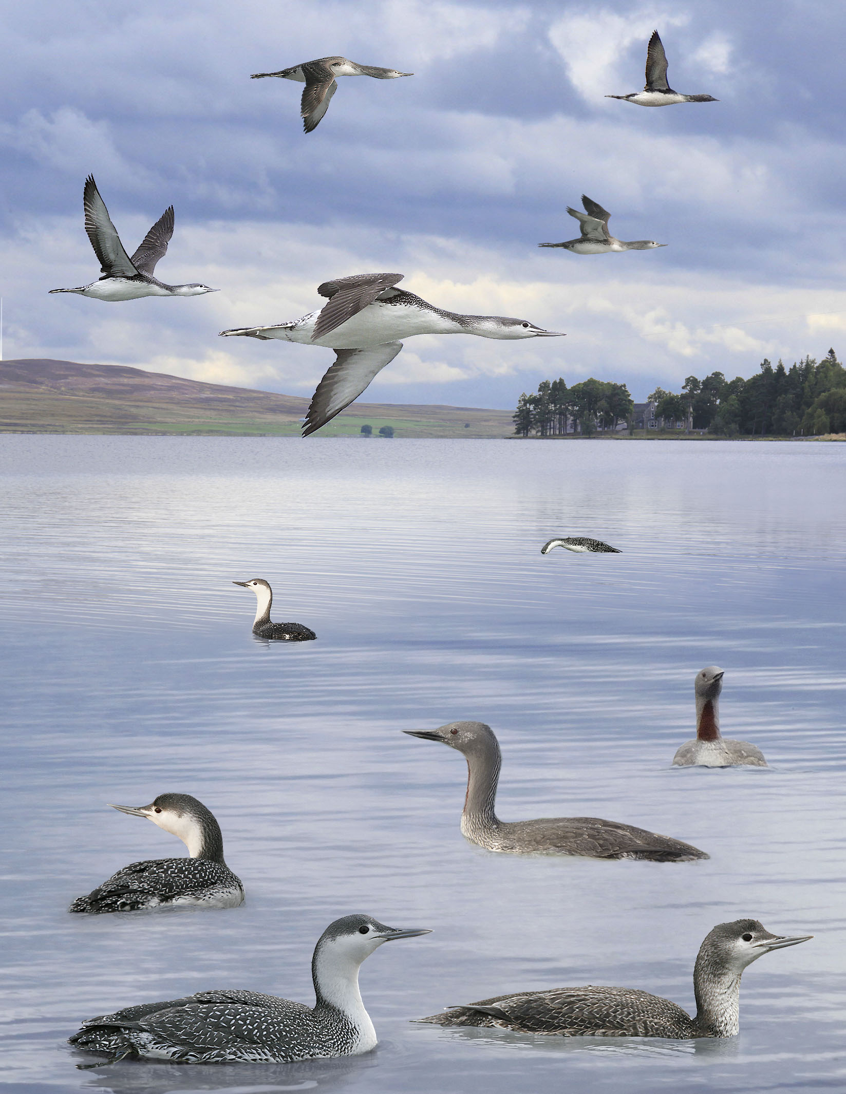 Red-throated Diver from the Crossley ID Guide Britain and Ireland